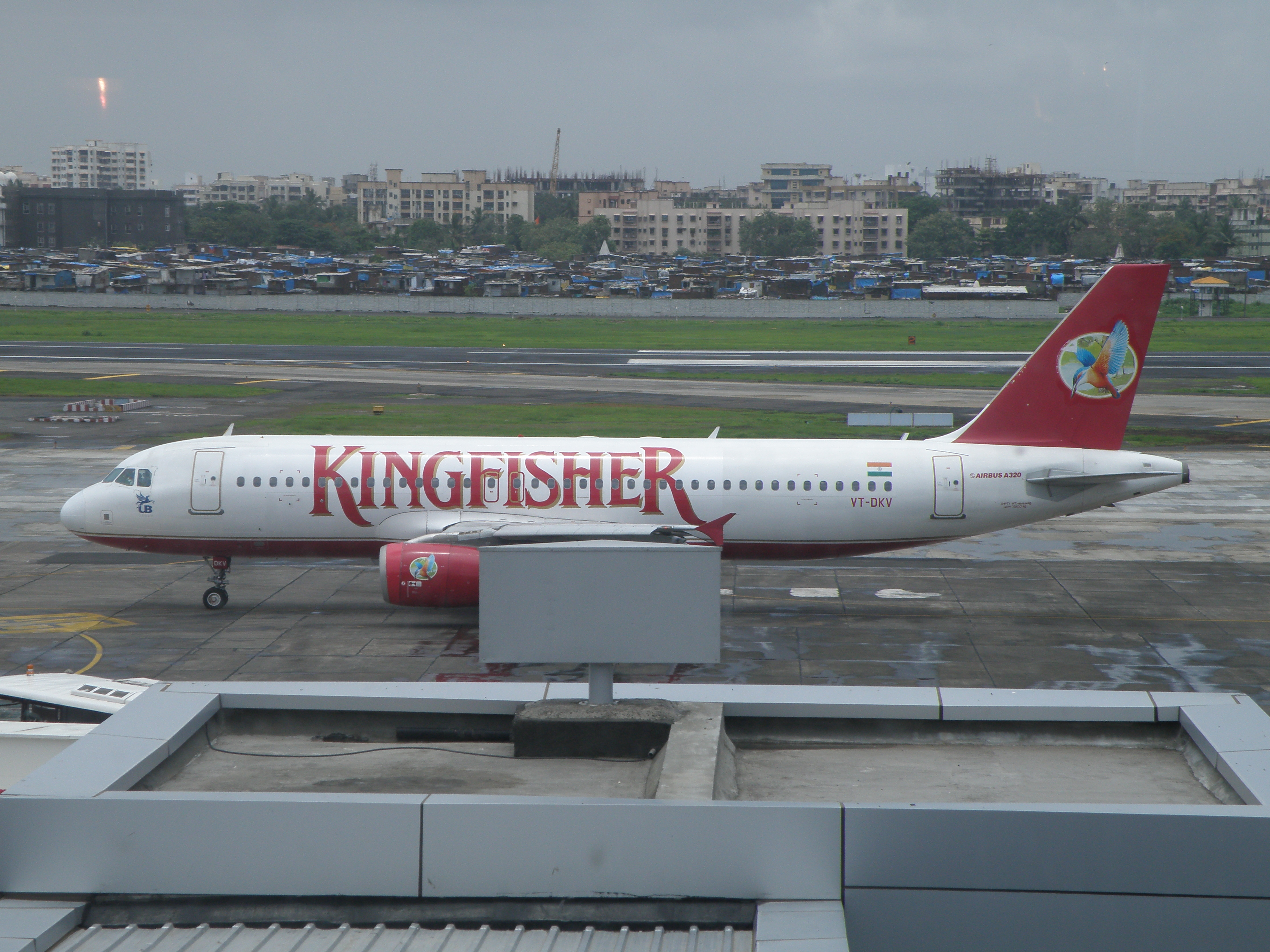 Kingfisher Airlines aircraft VT-DKV in front of terminal 1C of Chhatrapati Shivaji International Airport